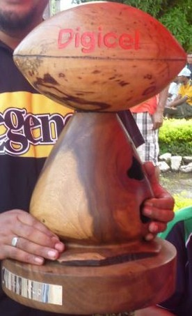 Holding the Digicel Cup.